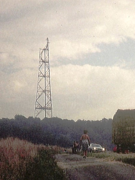 Dudelange TV antenna after 1981 crash (cropped)